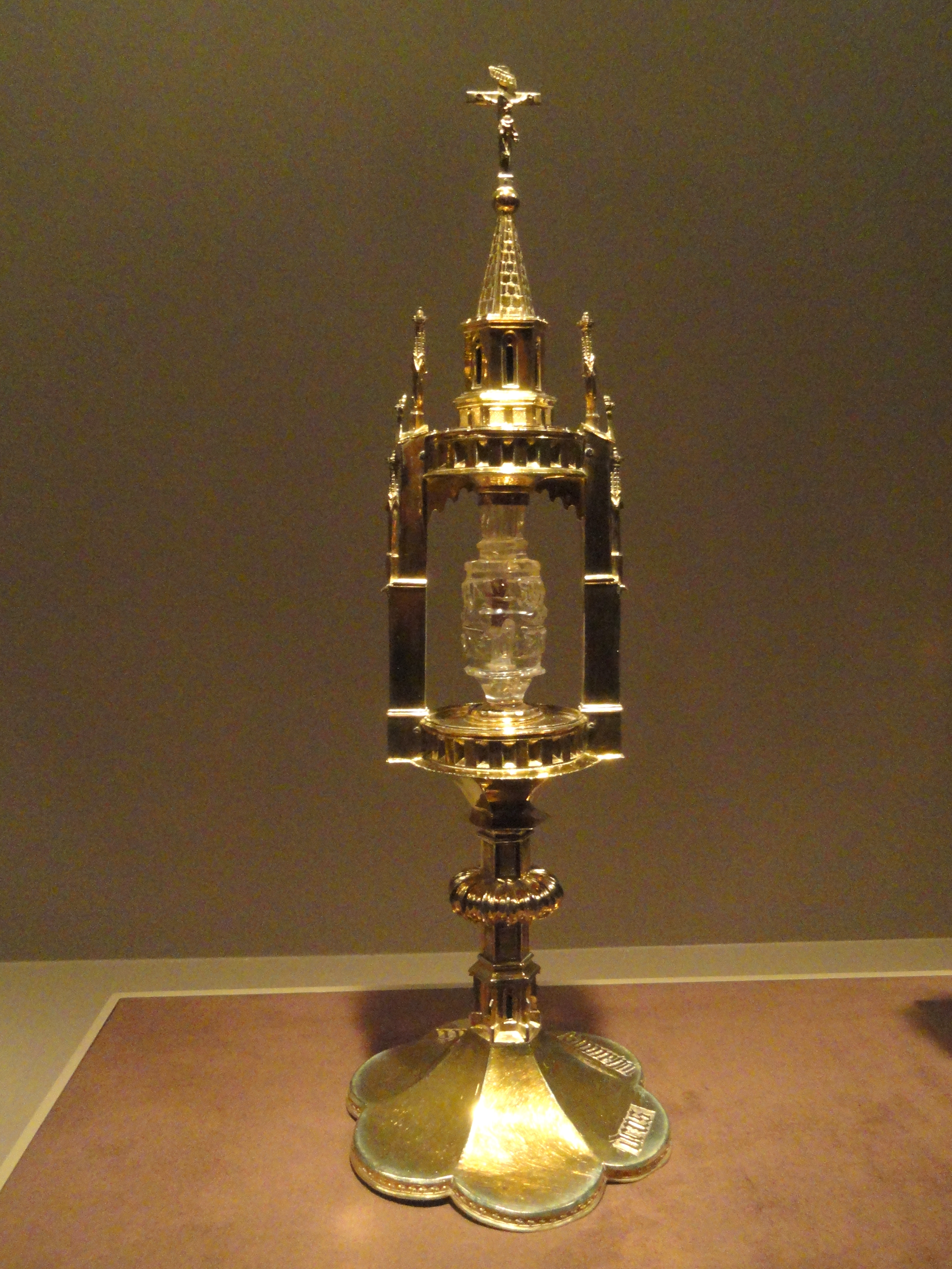 Exhibit in the Art Institute of Chicago, Chicago, Illinois, USA. This artwork is in the public domain because the artist died more than 70 years ago.